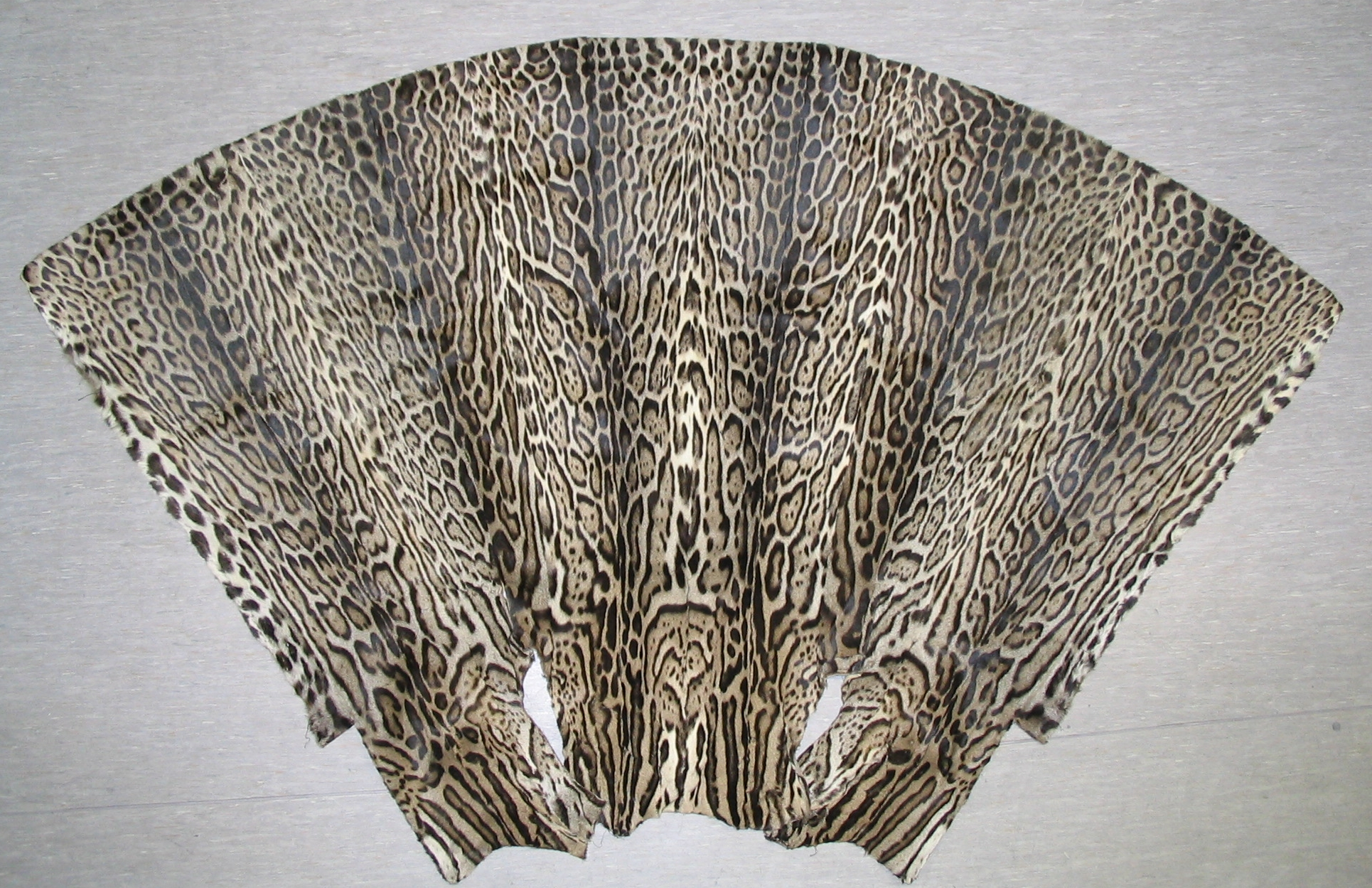 Ocelot coat (body)